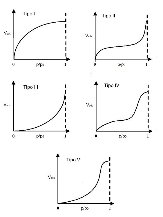 Types of Isotherms